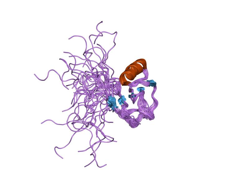 Cartoon representation of the molecular structure of protein registered with 1hky code.